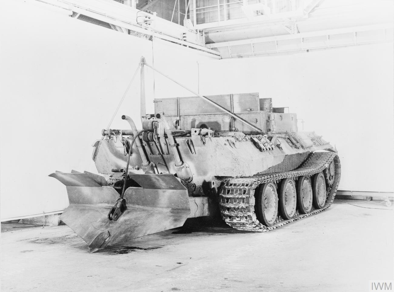 Captured German Bergepanther armoured recovery vehicle under trials in Britain